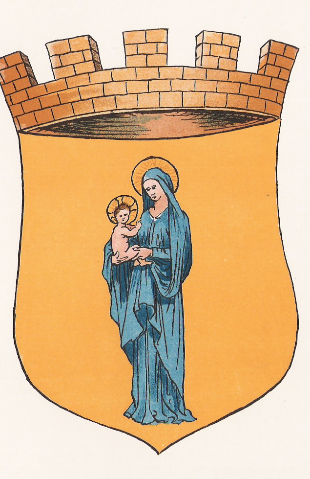 These Arms appear in Lauder and Lauderdale by A. Thomson, Galashiels, 1902. Out of copyright.